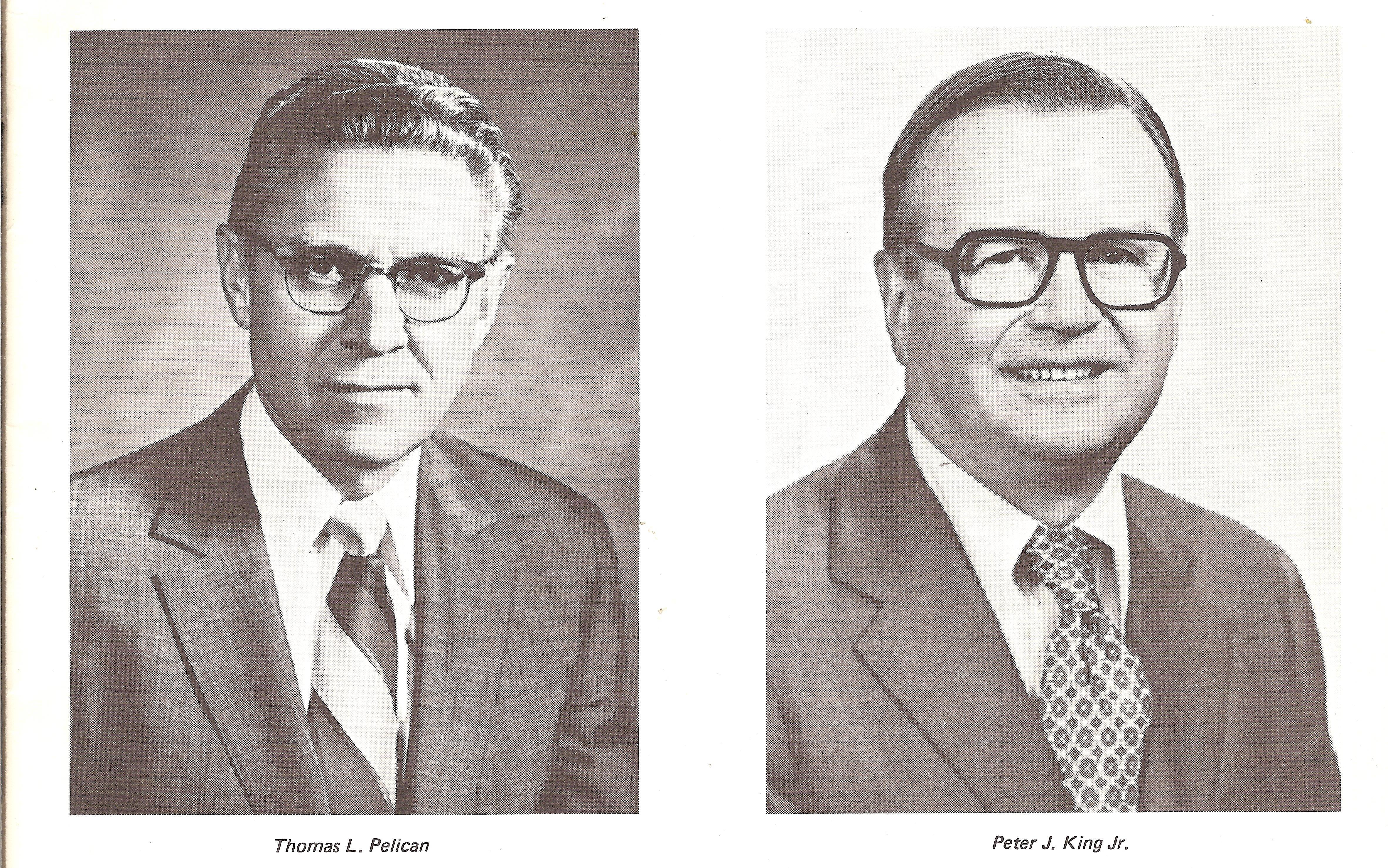 Two CIG presidents